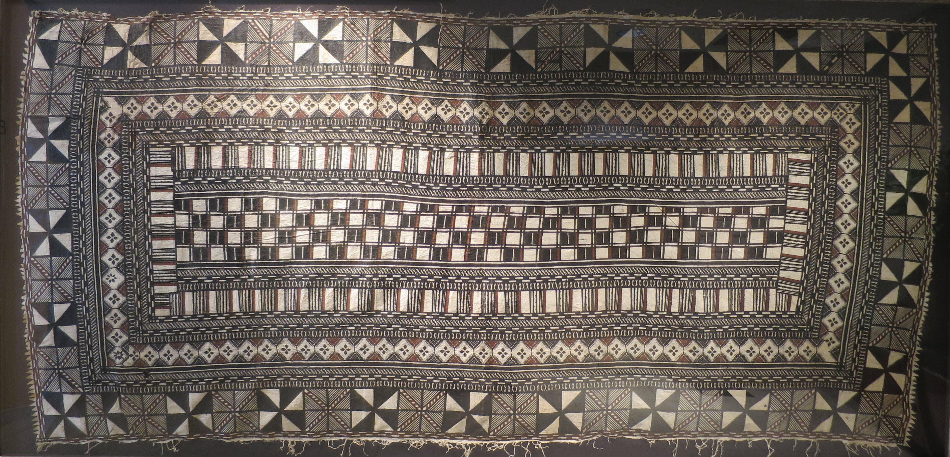 Fijian royal tapa cloth, 19th century, Neiman Marcus Collection, Honolulu store